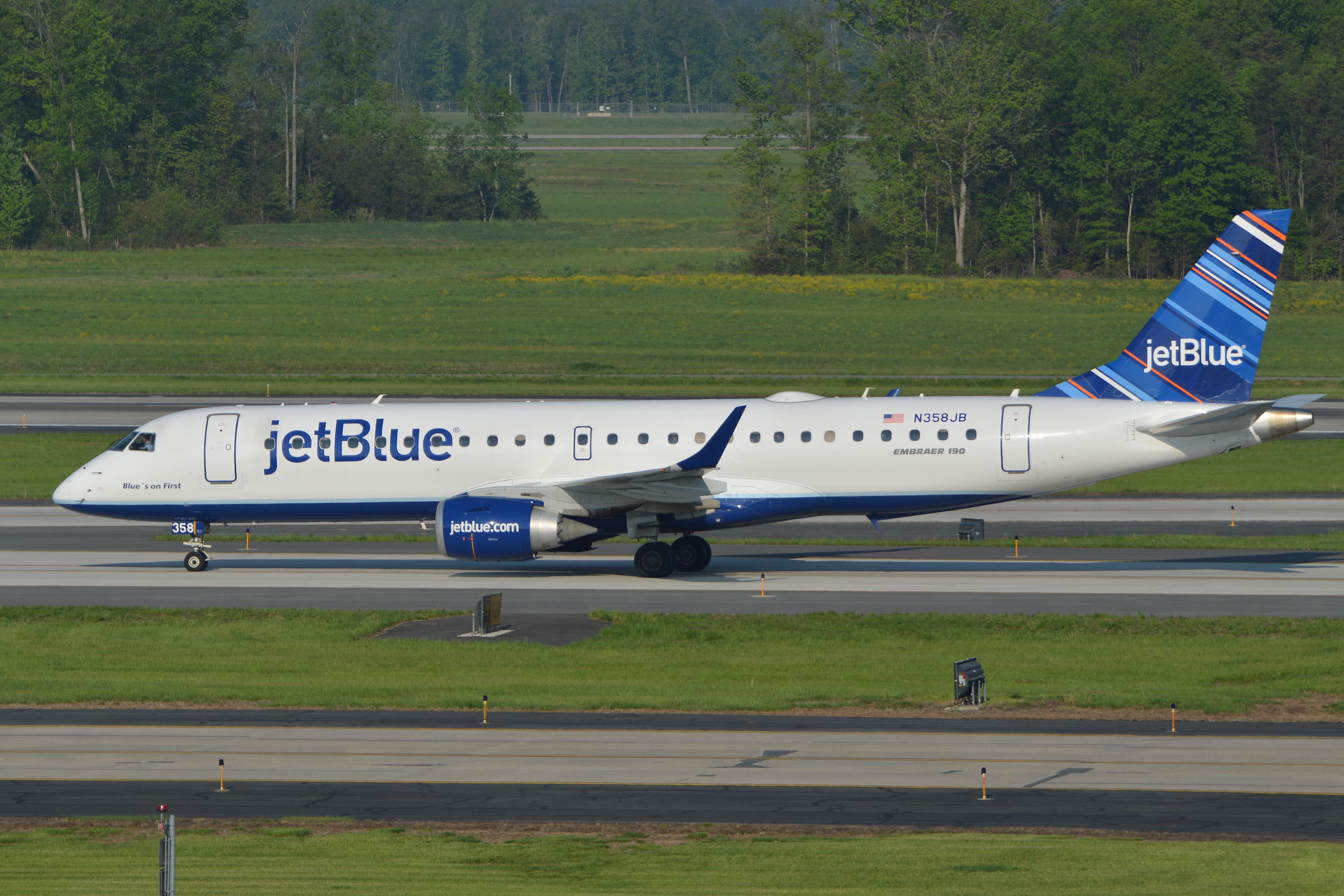 c/n 1900618. Built 2013. Washington Dulles Airport, Virginia, USA. 07-5-2015